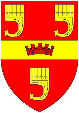 Arms of Grenfell: Gules, on a fess between three clarions or a mural crown of the first (Debrett's Peerage, 1968, p.510)